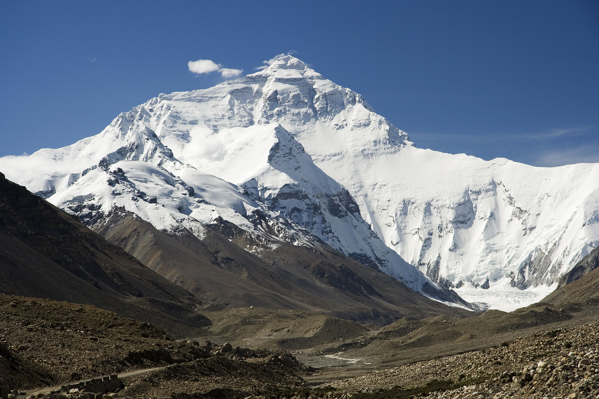 Mount Everest North Face as seen from the path to the base camp, Tibet (5,160 m).